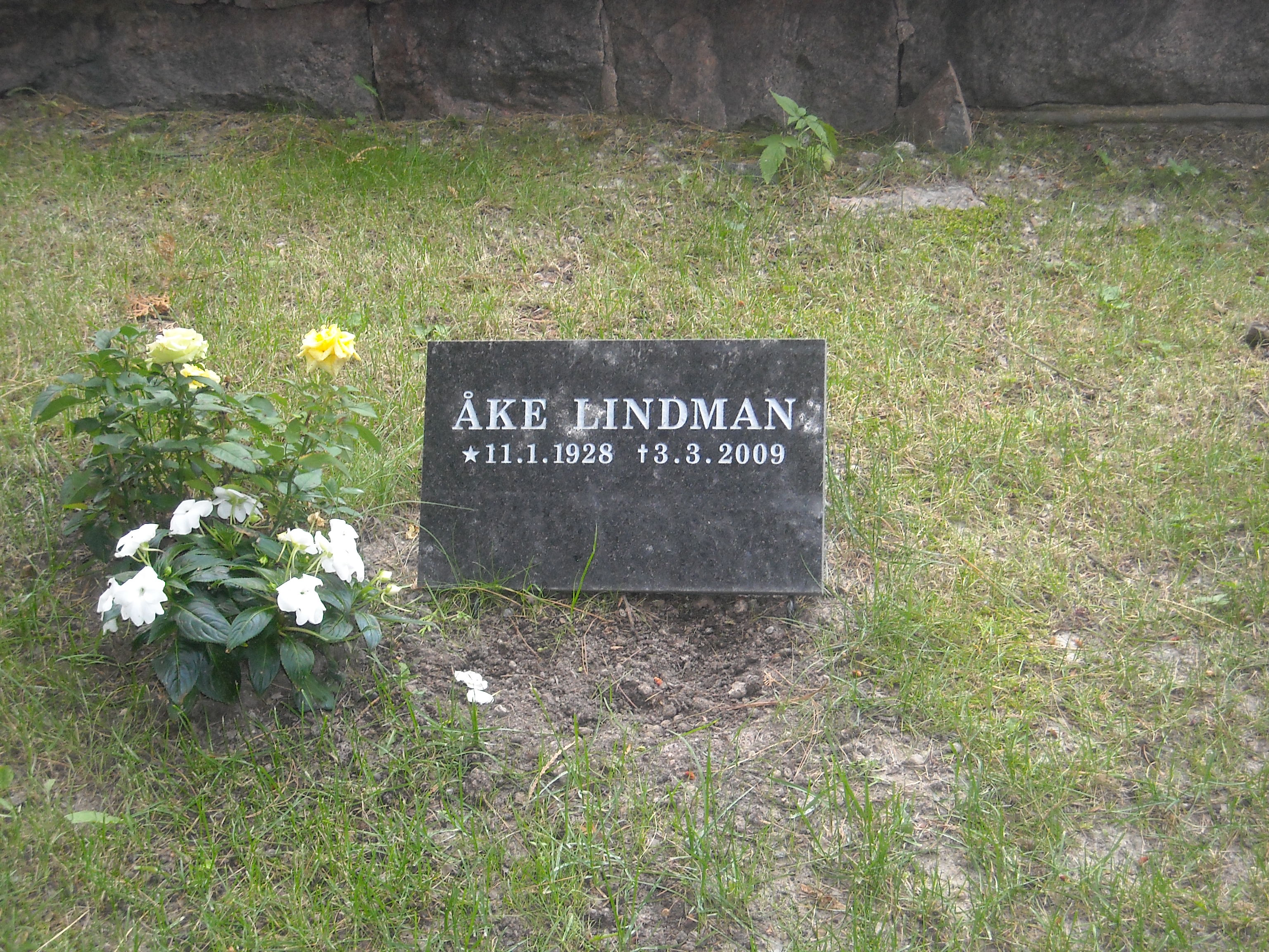 Åke Lindman's grave in Hietaniemi cemetery, Helsinki